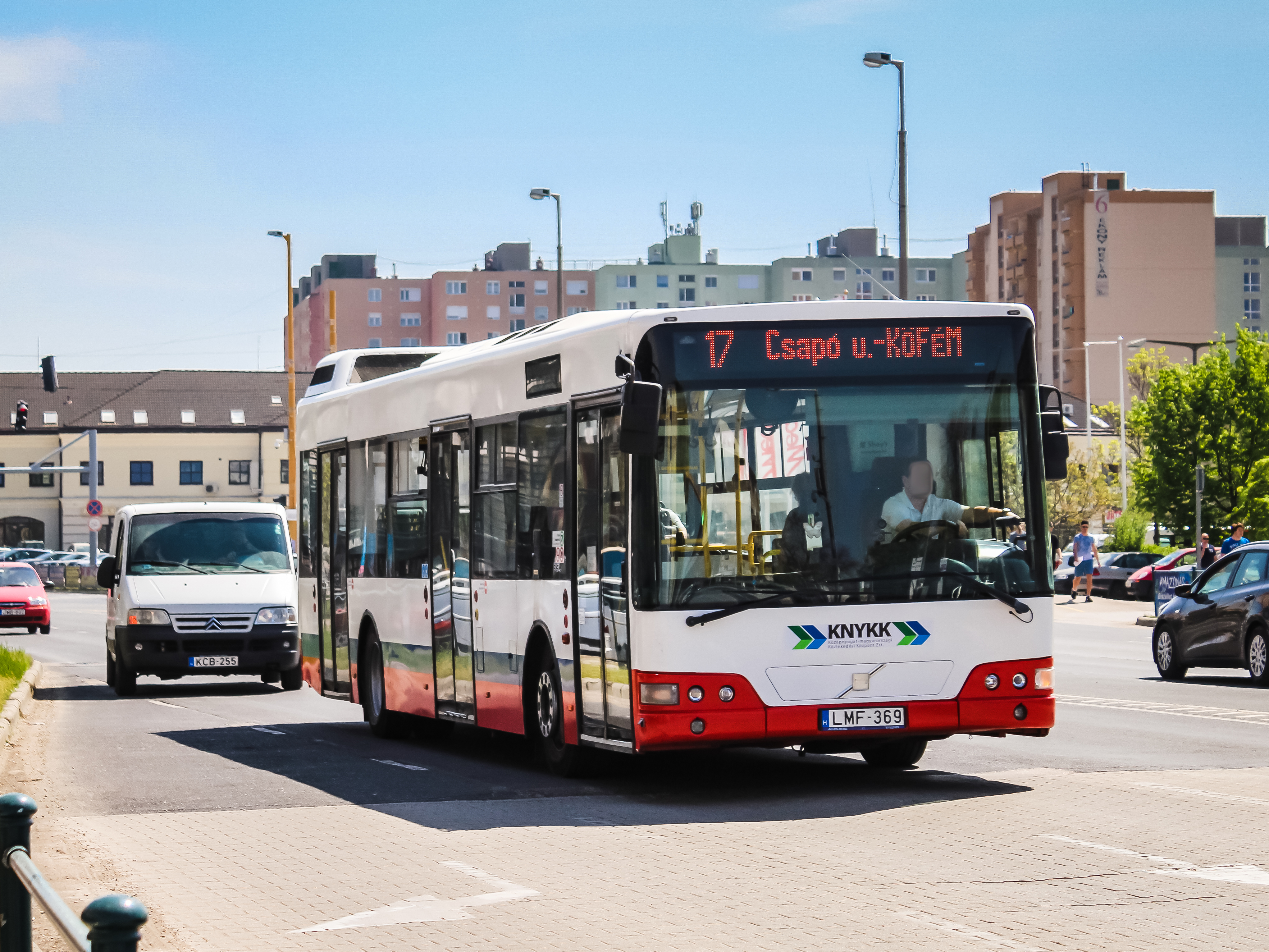 Bus 17 operated by a Volvo B9L in Székesfehérvár on the Palotai út.